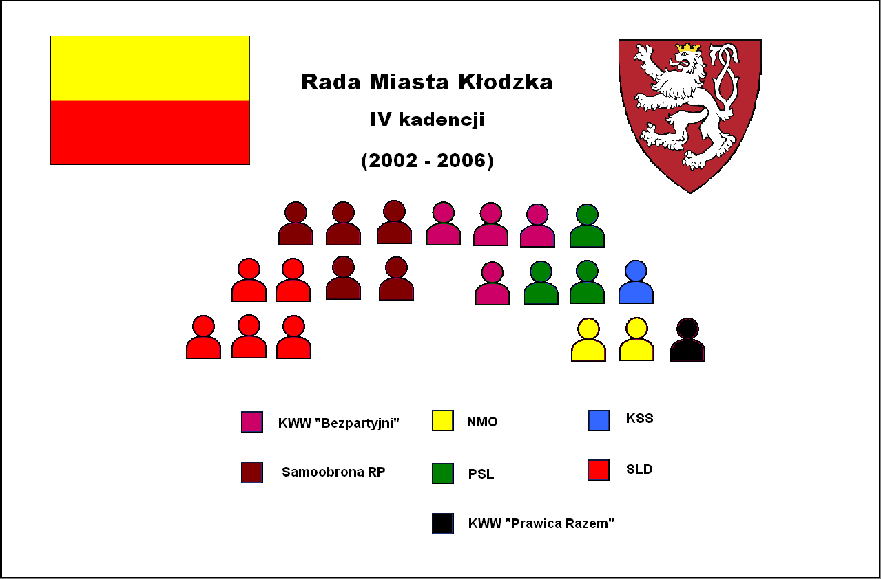 City Council in Kłodzko fourth term (2002-2006) - the division of seats